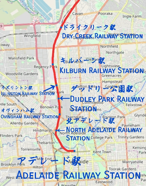 Indicating the stations of Gawler Railway Line